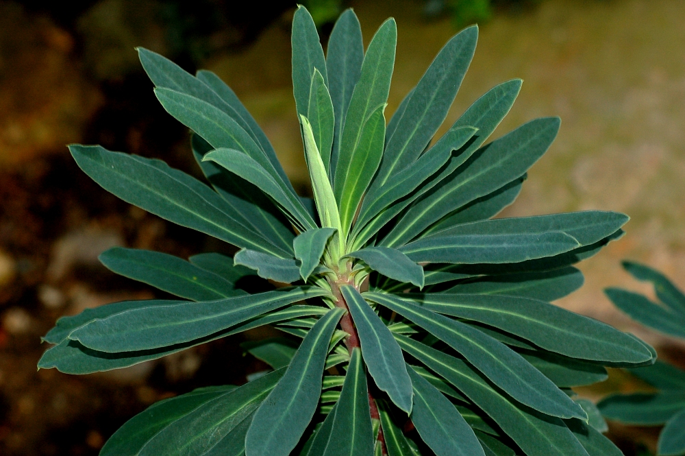 Euphorbia characias, Botanical Garden Berlin, Germany